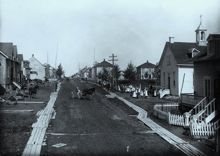 Photograph, Normandin, Lake St. John, QC, about 1906, Wm. Notman & Son. Silver salts on glass - Gelatin dry plate process, 20 x 25 cm